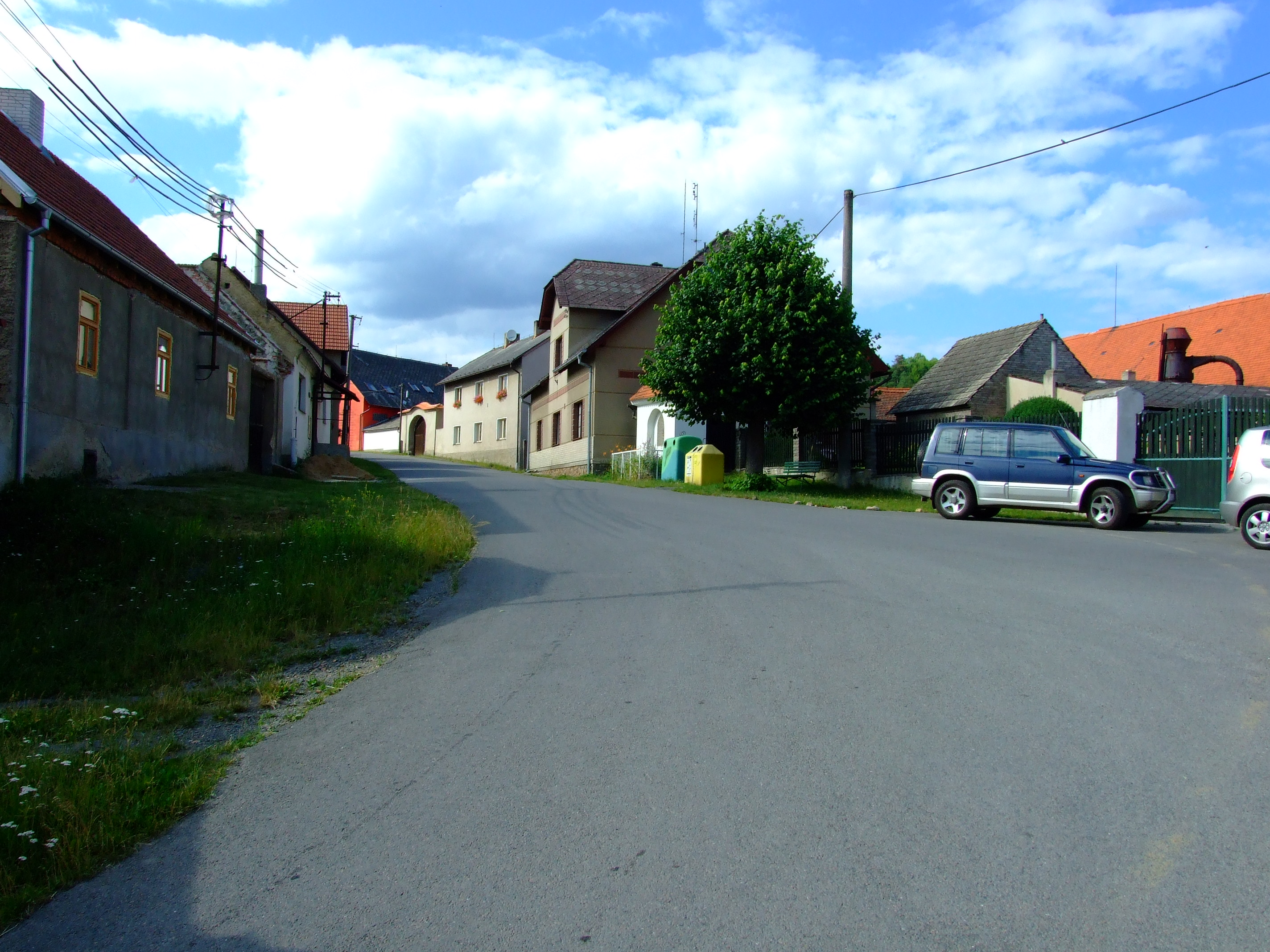 Sýkořice village near Berounka river, Central Bohemian region, CZhelp